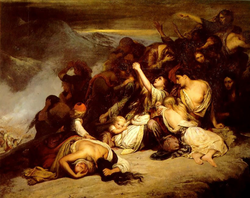 Ary Scheffer (French, 1795-1858): The Souliot Women, 1827, Oil on canvas, Paris, Musée du Louvre.